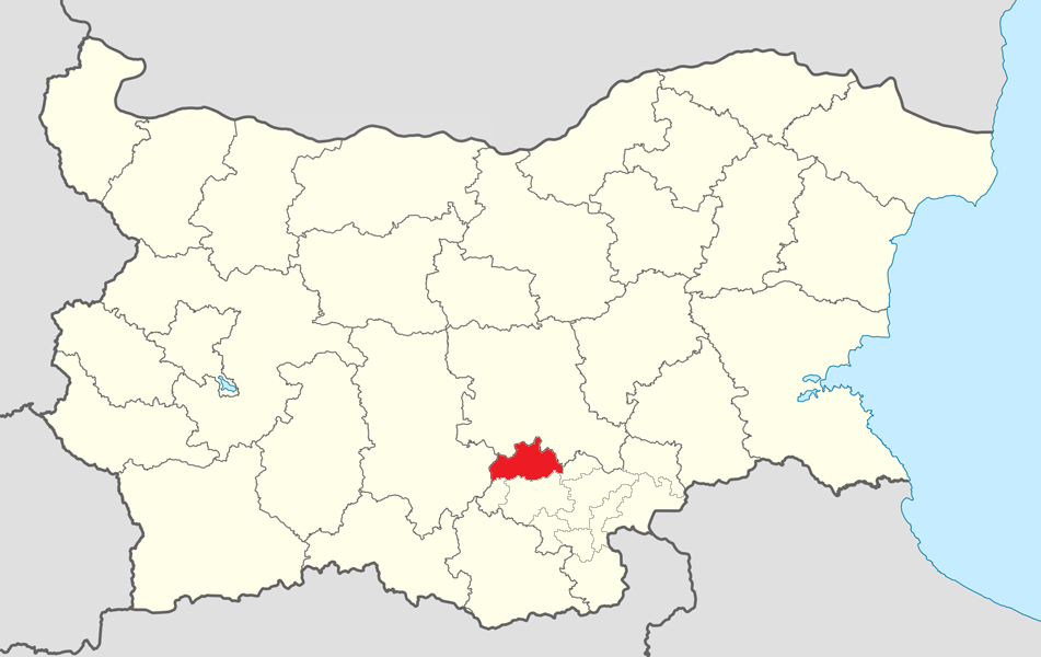 Location map of Dimitrovgrad Municipality within Bulgaria and Haskovo Province